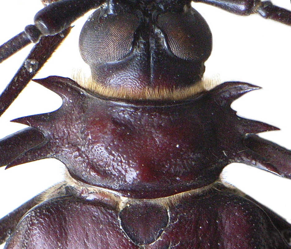 Pronotum of Derobrachus sp. probably D. sulcicornis